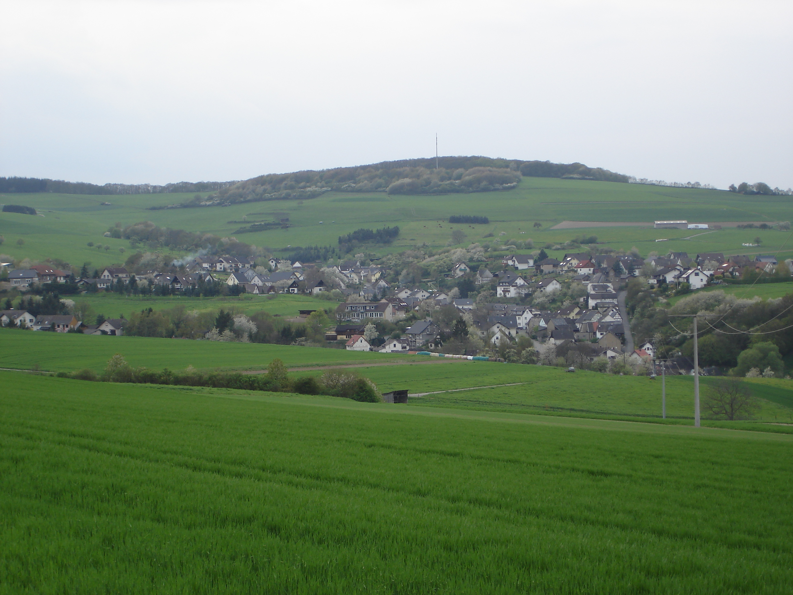 Dedenbach (as seen from the road to Rodder)